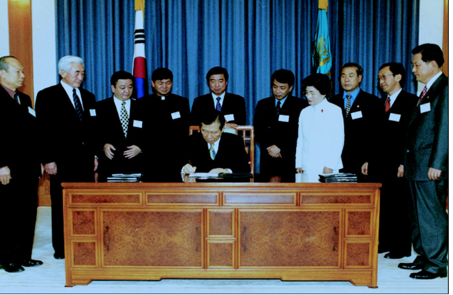 President Kim Dae-jung signs the Jeju 4.3 Special Law at the Blue House along side family members of the victims and representatives of civic groups